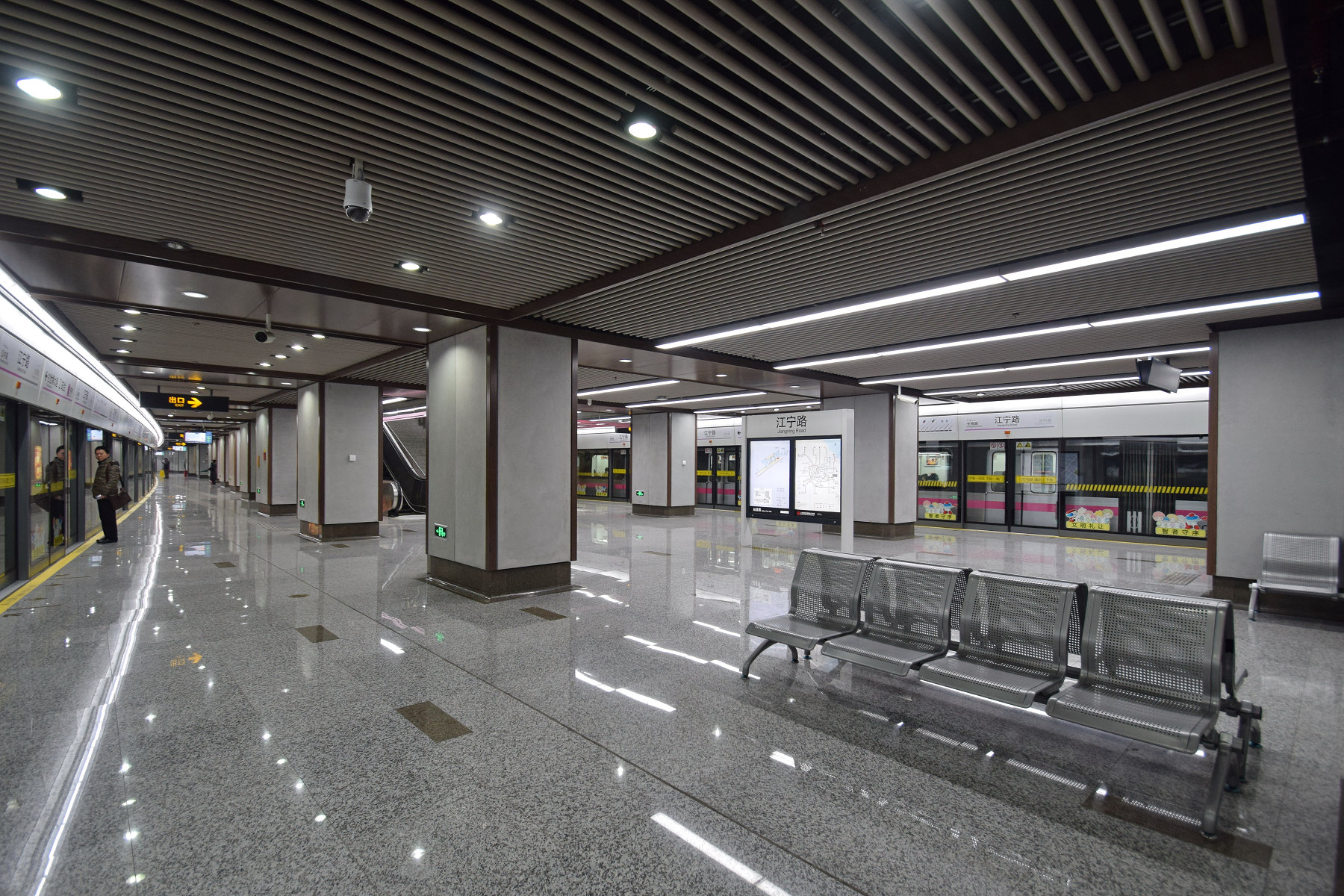 Line 13 Platform of Jiangning Road Station, Shanghai Metro